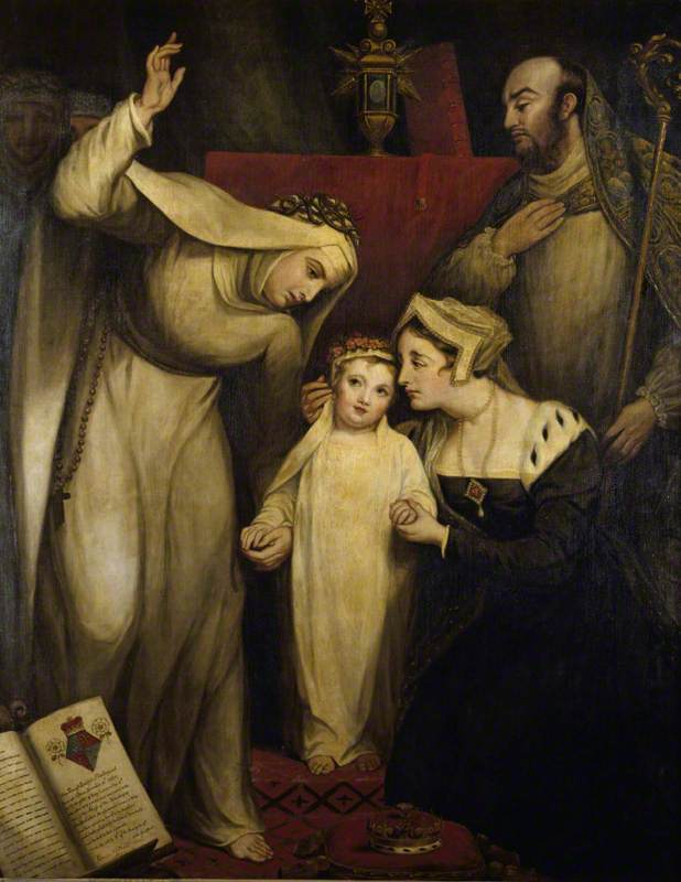 Princess Bridget Plantagenet (1480–1517), Dedicated to the Nunnery at Dartford by James Northcote Date painted: 1822 Oil on canvas, 185.5 x 135 cm Collection: National Trust, Petworth House Petworth, West Sussex, England, GU28 0AE